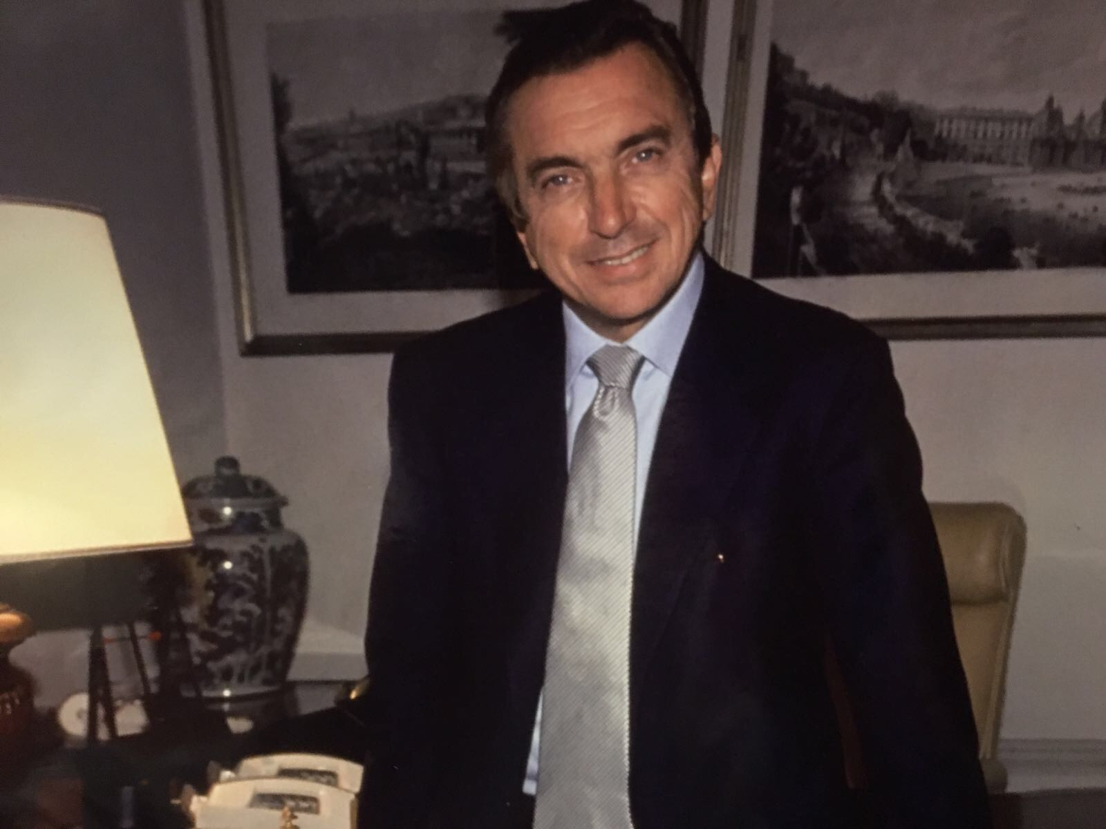 Francesco Bellavista Caltagirone, also known simply as Francesco Caltagirone (born 18 February 1939), is an Italian businessman, entrepreneur, philanthropist, former Chairman of Acqua Marcia Group, former CAI’s shareholder (Compagnia Aerea Italiana S.p.A), former director at Alitalia.